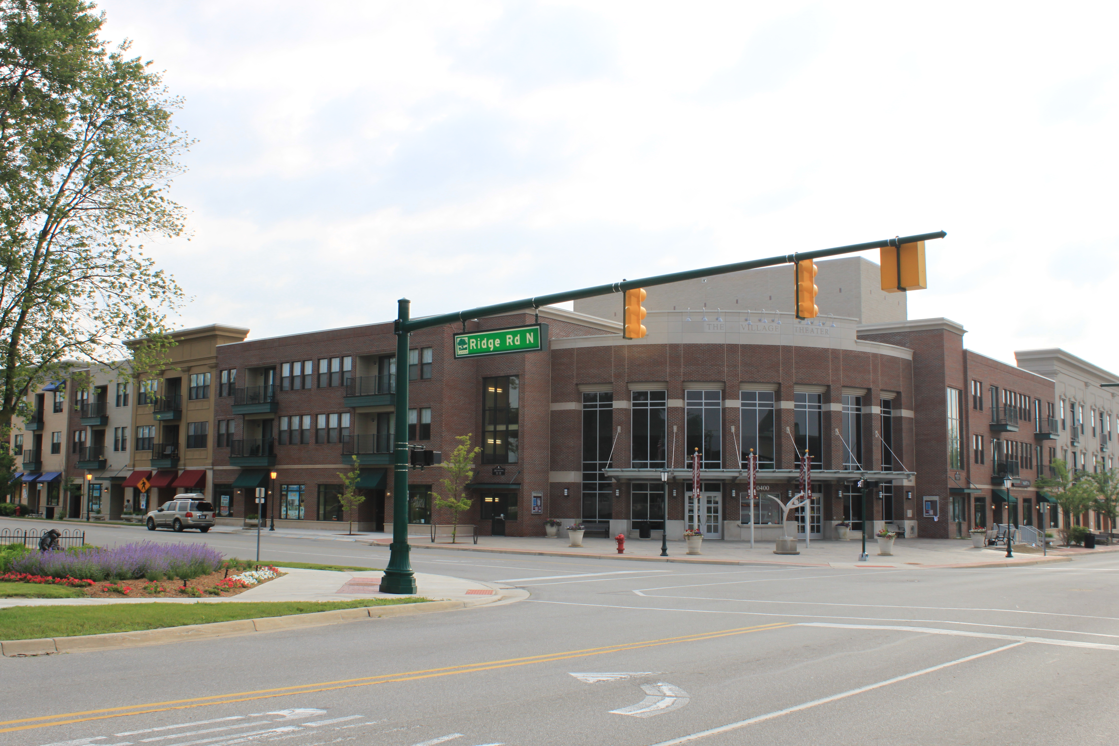 The Village Theater, Canton Township Michigan. Cherry Hill & Ridge Roads.